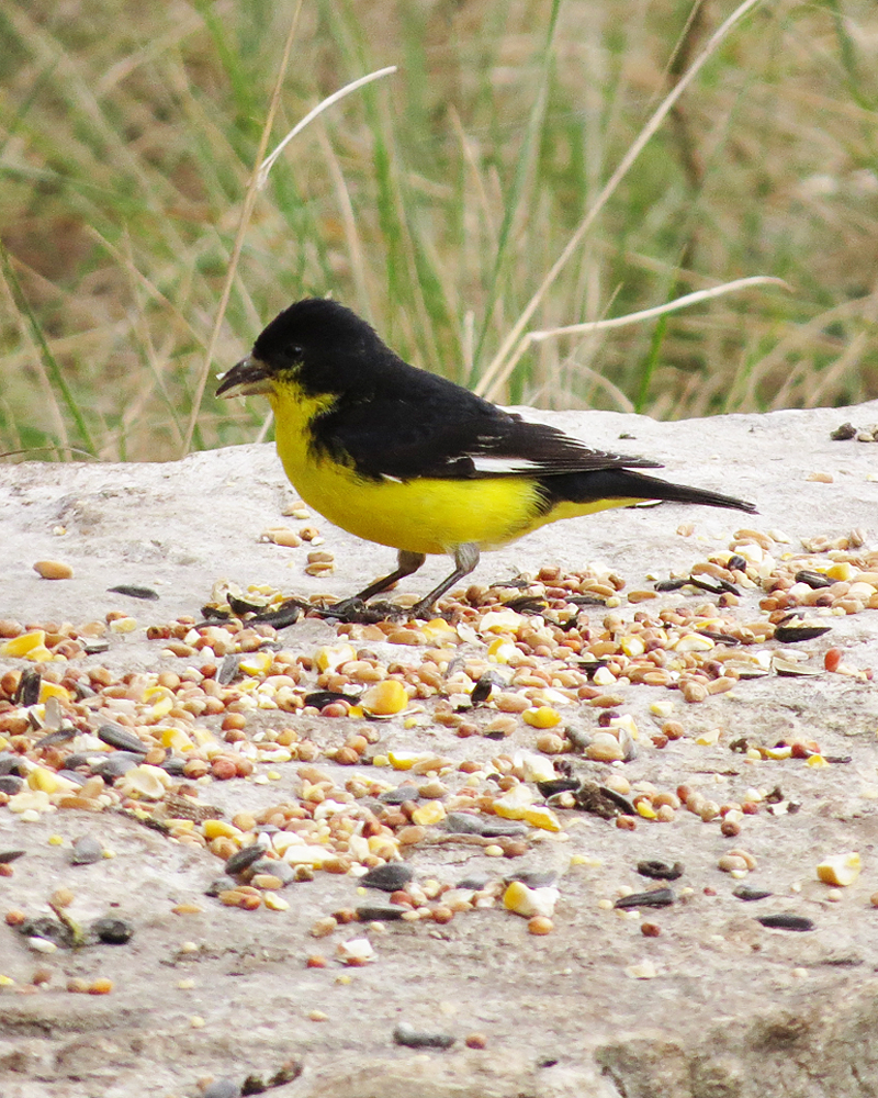 Spinus psaltria psaltria 27 apr 14 Chalk Bluff Park, Texas